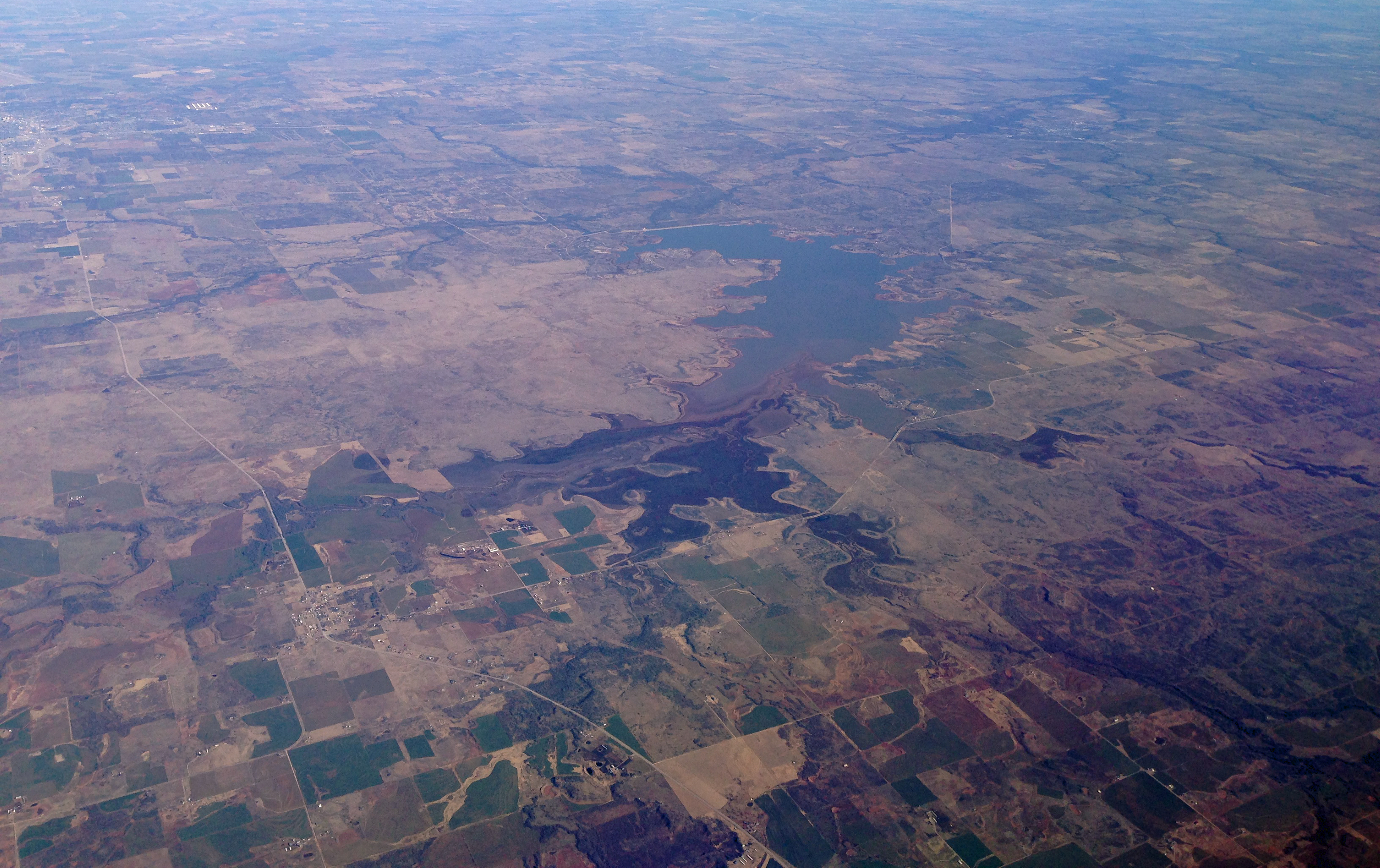 Lake Arrowhead in Texas viewed from aboard an American Airlines flight from Lubbock International Airport to Dallas-Forth Worth International Airport.